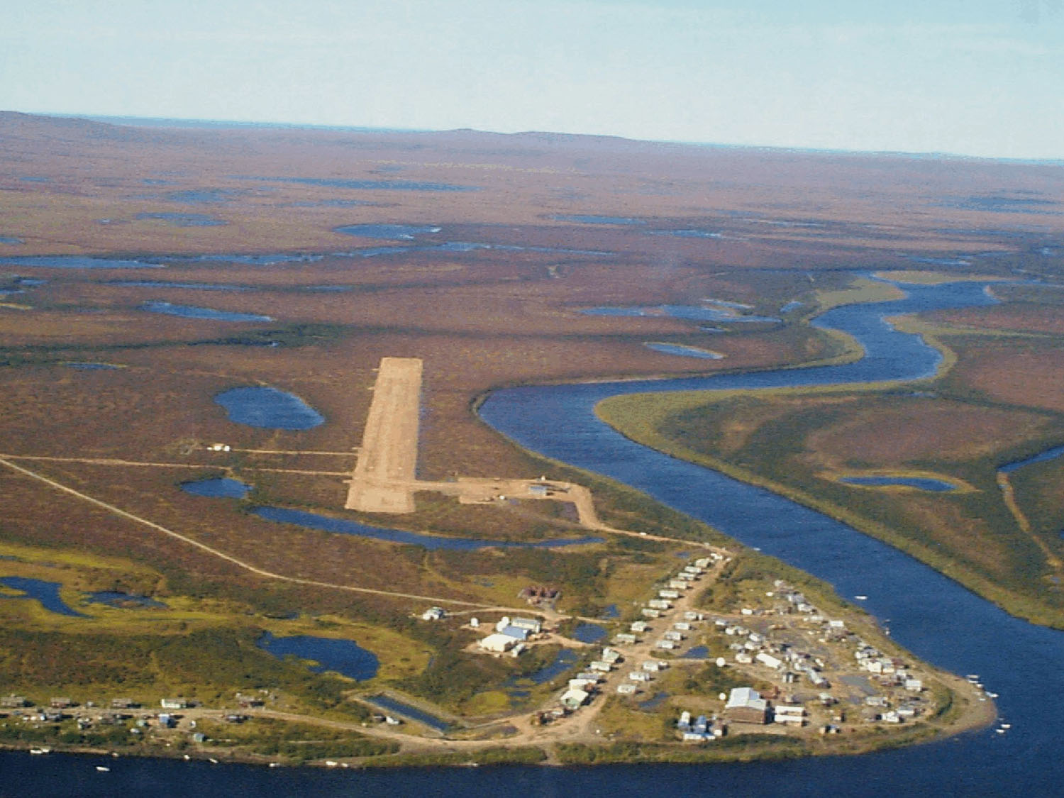 Aerial view of Buckland, Alaska, USA. View is to the west.